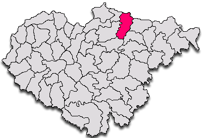 Map Salaj County Romania